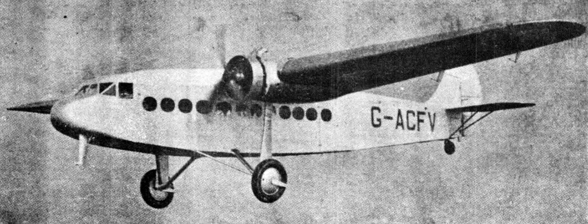 Avro 642 photo from NACA-AC-191